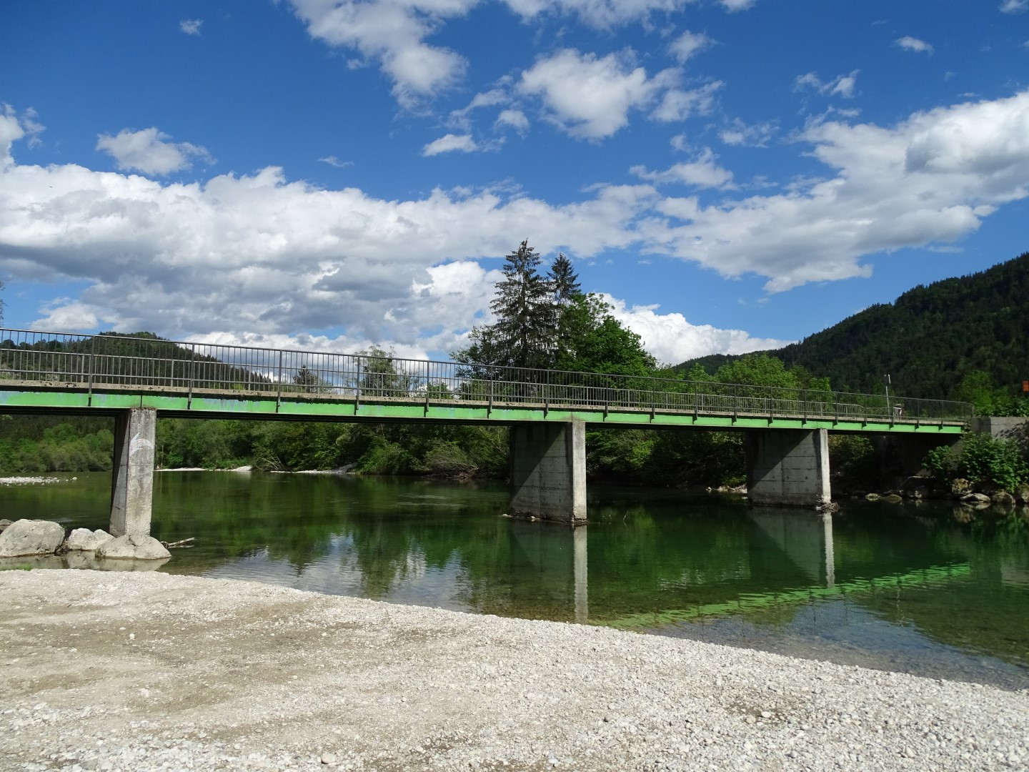 Bridge across the river Sava in Selo at Bled